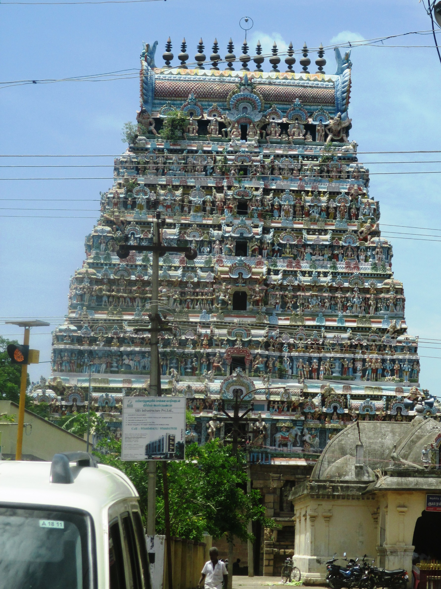 Tiruvidaimaruthur